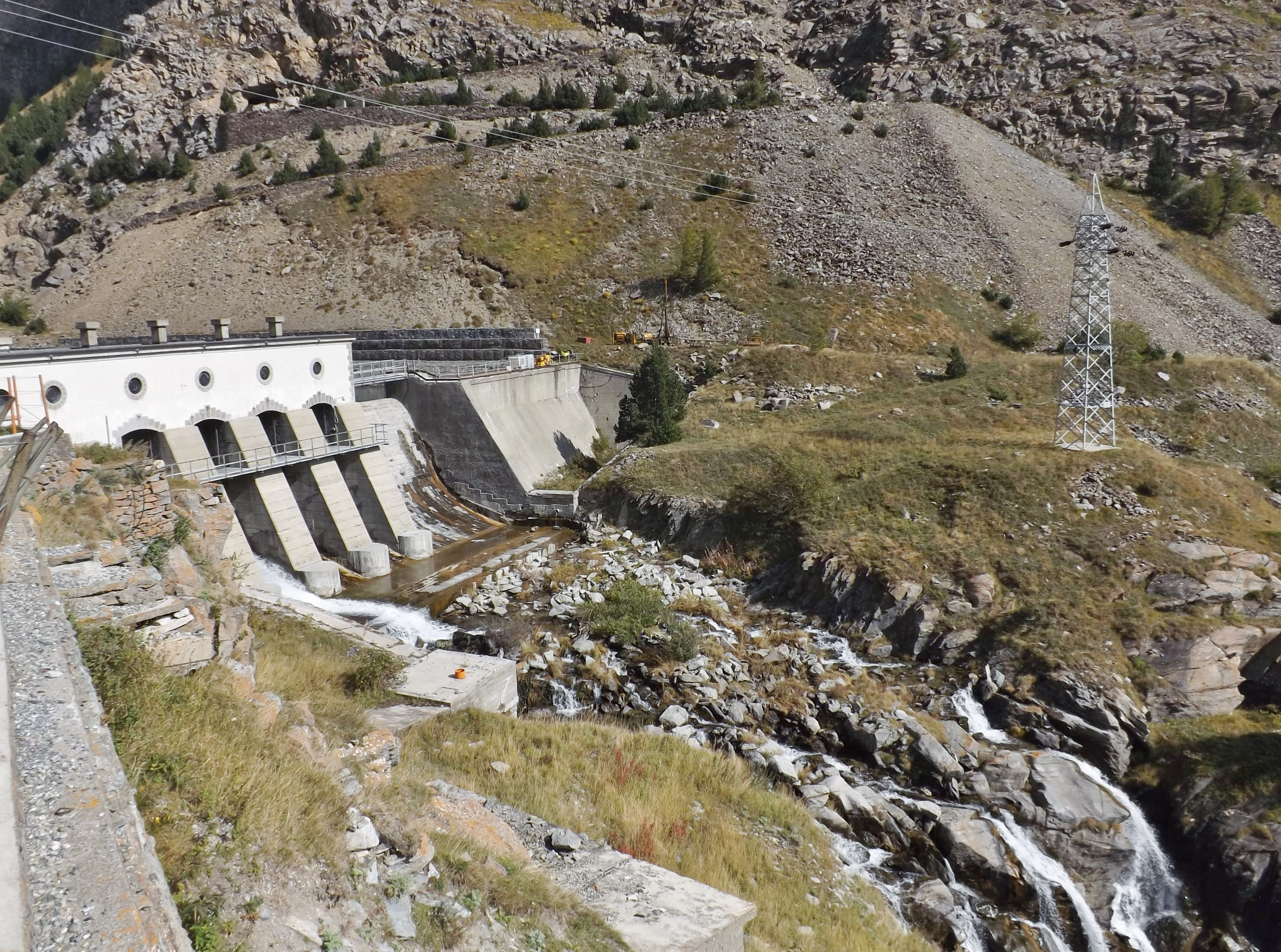 Sight of the Cenise torrent, flowing from the barrage St-Nicolas dam, in Savoie (France), some meters prior to enter Italy and take the name of Cenischia.